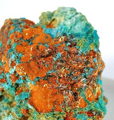 Amarantite, Hohmannite Locality: Queténa Mine, Toki Cu deposit, Chuquicamata District, Calama, El Loa Province, Antofagasta Region, Chile (Locality at ) Size: 4.1 x 3.8 x 2.5 cm. Two beautiful orange iron-containing minerals, both very rare, richly presented on one specimen! The first close-up photo shows sharp, flat-laying, acicular crystals of Amarantite in sprays to perhaps 5mm. In person, these crystals have a robust, electric orange-red flare to them and are quite eye-visible. Mixed in (second close-up photo) are small tufts or ball-shaped clusters of microcrystalline Hohmannite, altering to lighter brown metahohmannite. Associated minerals are Metahohmannite, Kornelite , Chalcanthite, Copiapite, and Picromerite, I am told.